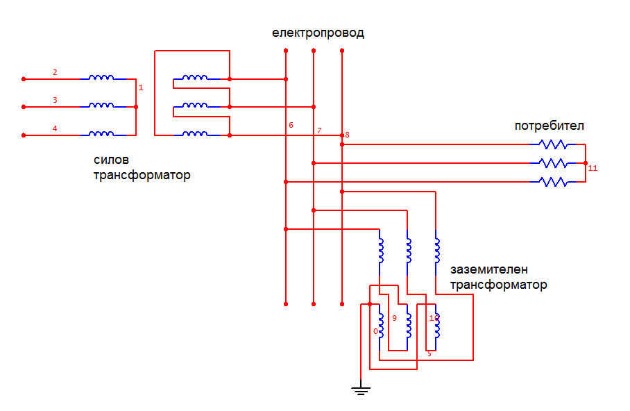 Model of Earthing transformer